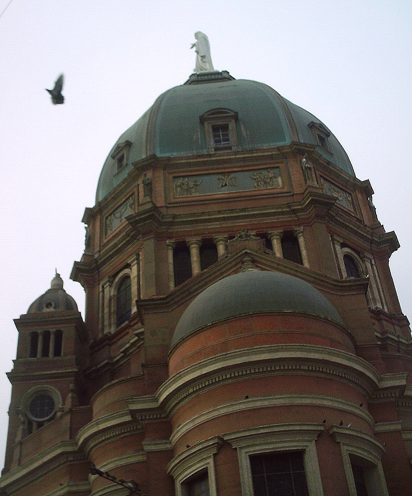 This picture was taken by me on april 11, 2006 with a Vivitar camera